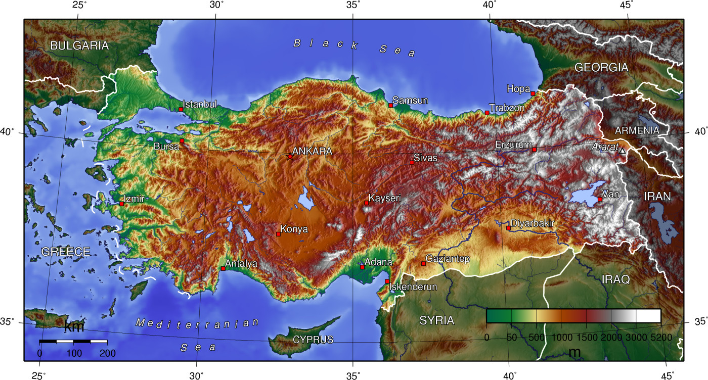 Topographical map of Turkey